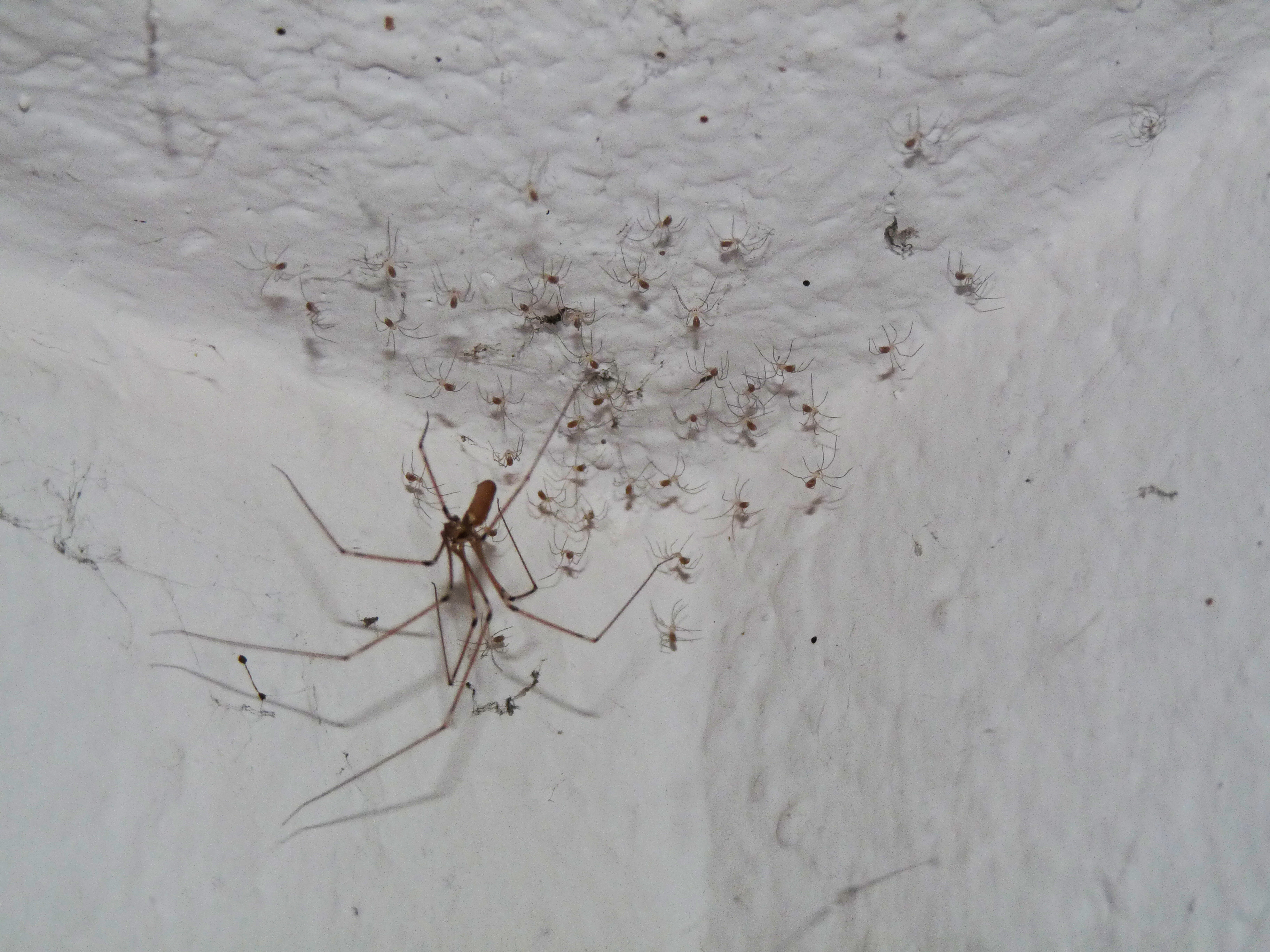 Adult cellar spider (daddy longlegs) Pholcus phalangioides with offspring (age about 10 days)